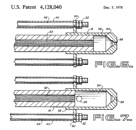 A recoil booster type blank firing adapter for the M2 heavy machine gun.